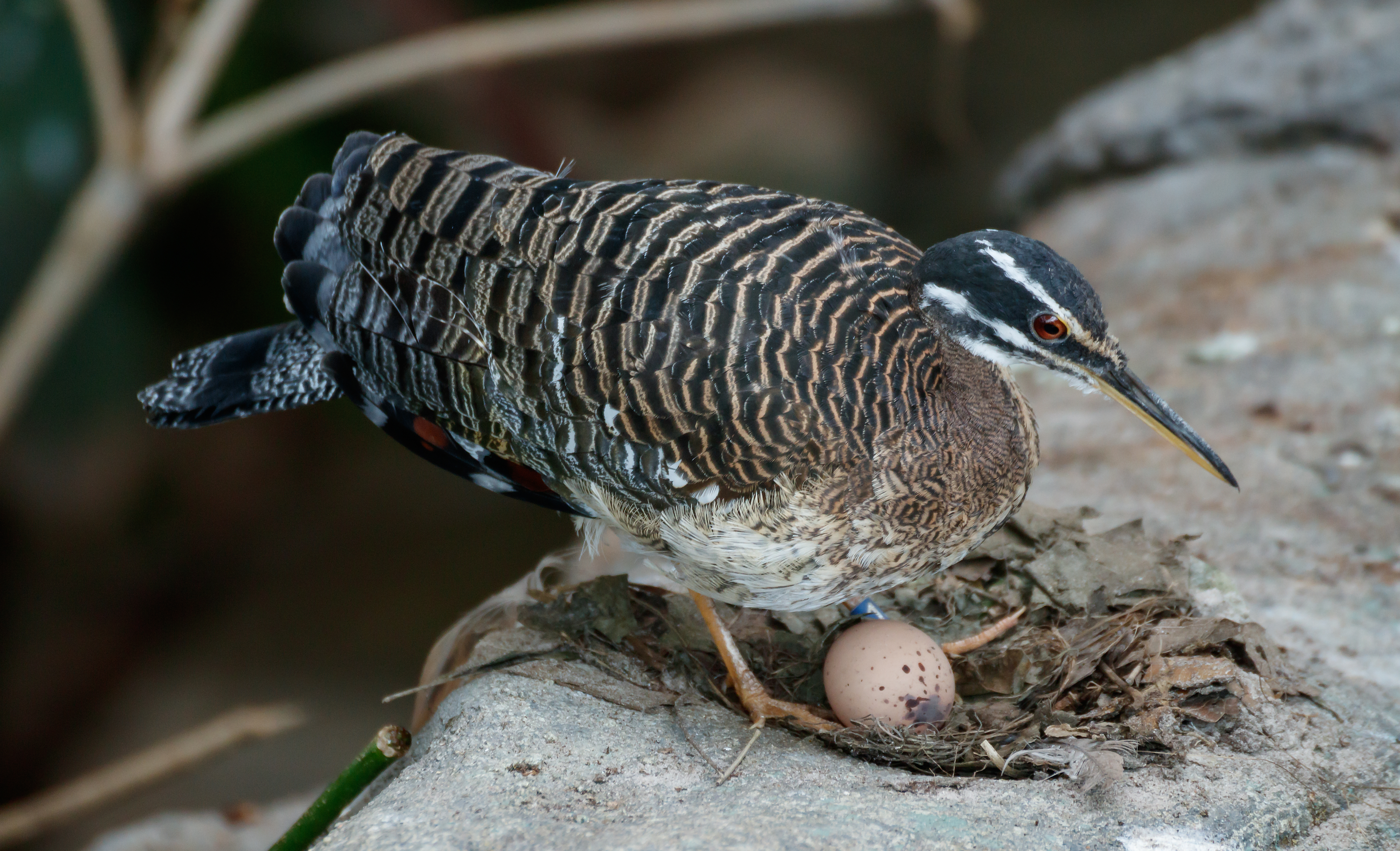 Eurypyga helias (Pallas, 1781) (Sunbittern) with egg; Karlsruhe Zoo, Karlsruhe, Germany.